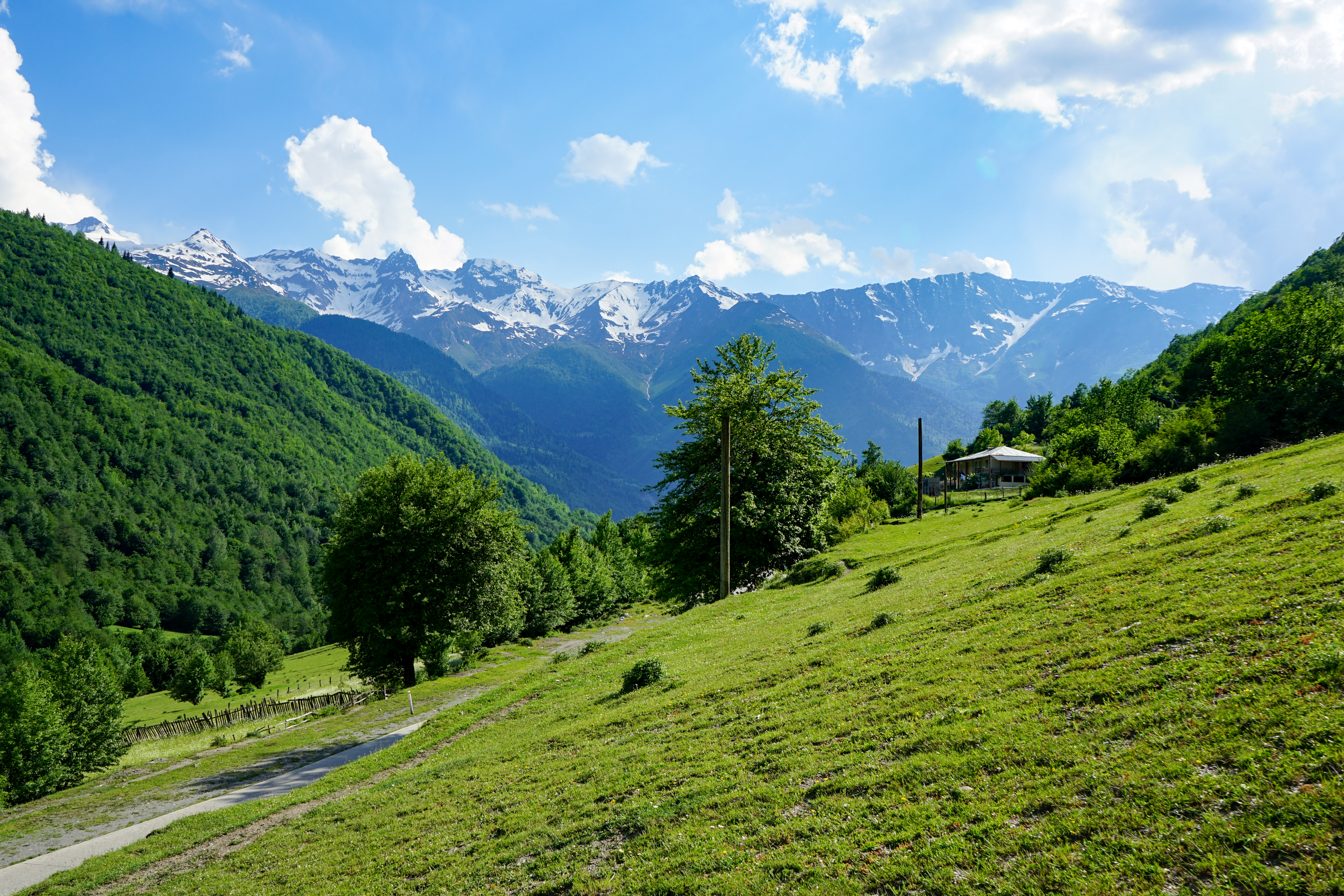 Habkviri (Abakura) Mountain Range as viewed from Doli Village, Svaneti, Georgia